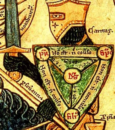 Detail from Harleian ms. 3244, folios 27-28, showing an allegorical knight preparing to battle the seven deadly sins with the "Scutum Fidei" diagram of the Trinity as his shield. This is part of a ca. 1255-1265 illustration to the Summa Vitiorum or "Treatise on the Vices" by William Peraldus. An overview of the whole illustration is available at File:Peraldus Vices and Virtues.jpg, and the depiction of the knight is at File:Peraldus Knight.jpg. For detailed discussion of the manuscript, see the article "An Illustrated Fragment of Peraldus's Summa of Vice: Harleian MS 3244" by Michael Evans in Journal of the Warburg and Courtauld Institutes, vol. 45 (1982), pp. 14-68. The Latin text on the shield in the image includes monograms and/or scribal abbreviations for "PATER" (the Father), "SPIRITUS" (the Holy Spirit), and "FILIUS" (the Son) in the three outer nodes, and "DEUS" (God) in the center node. The text in the links connecting the outer nodes to each other reads "Non est • nec e converso" (i.e. "Is not, and vice versa", indicating that a link connecting two outer nodes A and B encodes both of the propositions "A is not B" and "B is not A"). The text along the links connecting the center node to the outer nodes is quite obscured, but according to Evans should read "Est et e converso" (i.e. "Is, and vice versa", indicating that both "God is A" and "A is God" for each of the three persons of the Trinity). For the history and meaning of this general "Shield of the Trinity" or "Scutum Fidei" diagram of traditional western Christian symbolism (a visual summary of the first part of the Athanasian Creed), see the main article Shield of the Trinity. For other versions of the diagram on Wikimedia Commons, see Image:Wernigeroder_Wappenbuch_010.jpg, Image:3enighed.svg, Image:Trinidad-Anglican-Episcopal-Coat-of-Arms.svg, Image:Shield-Trinity-medievalesque.svg , and Image:Shield-Trinity-Scutum-Fidei-compact.svg .